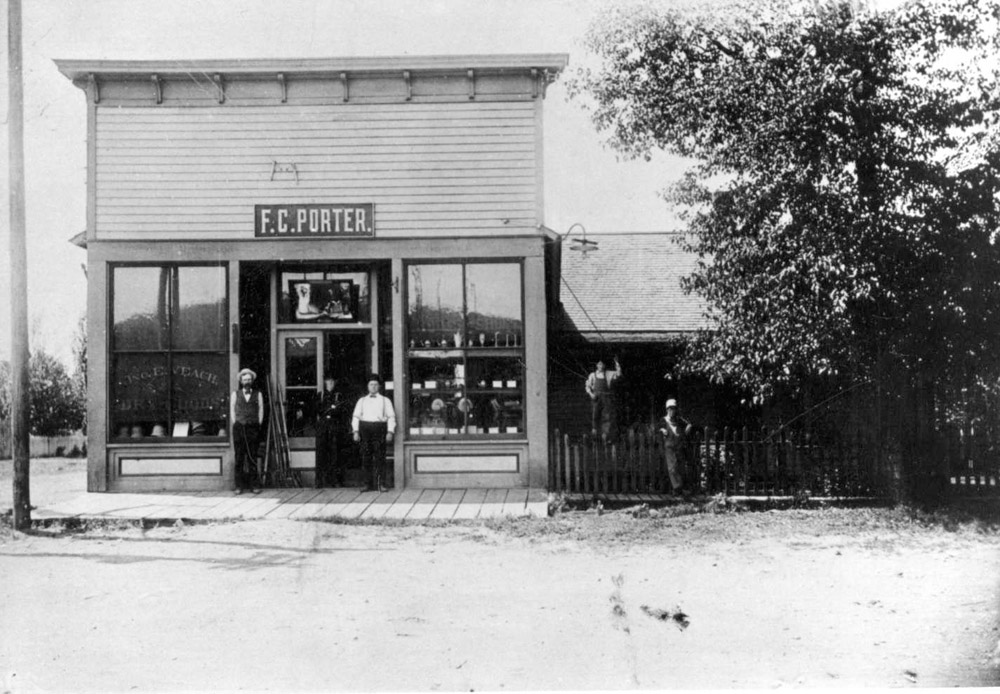 F. C. Porter Dry Goods Store in Thorp, Washington. ca. 1915